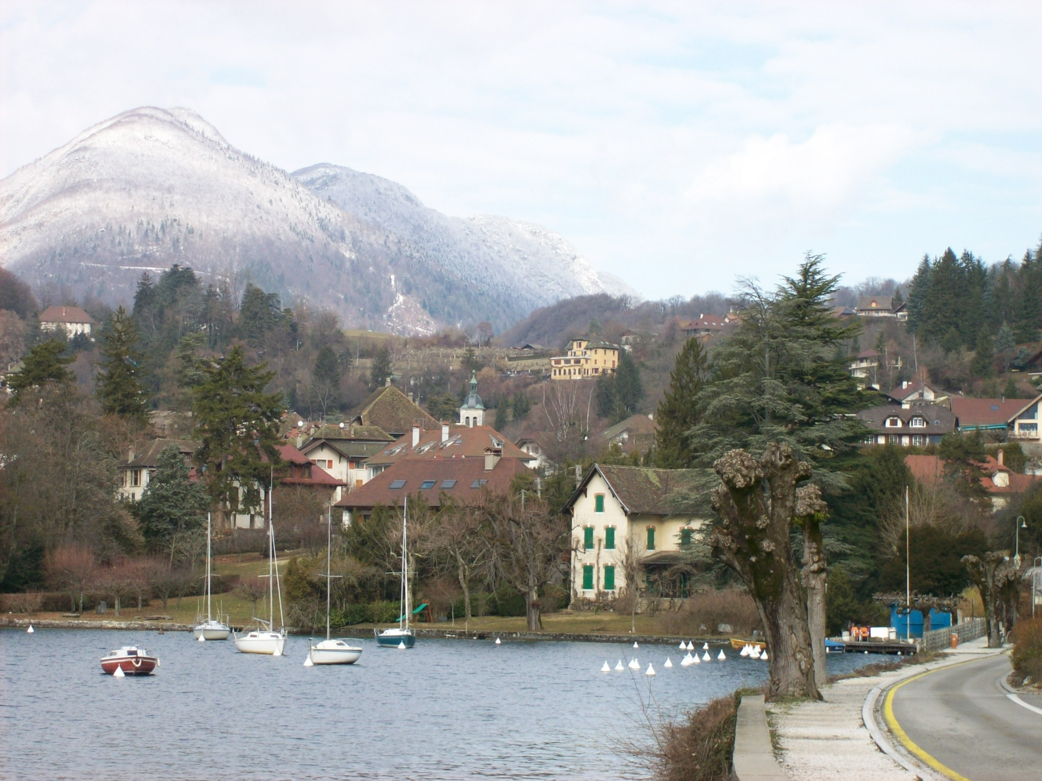 Approaching Talloires